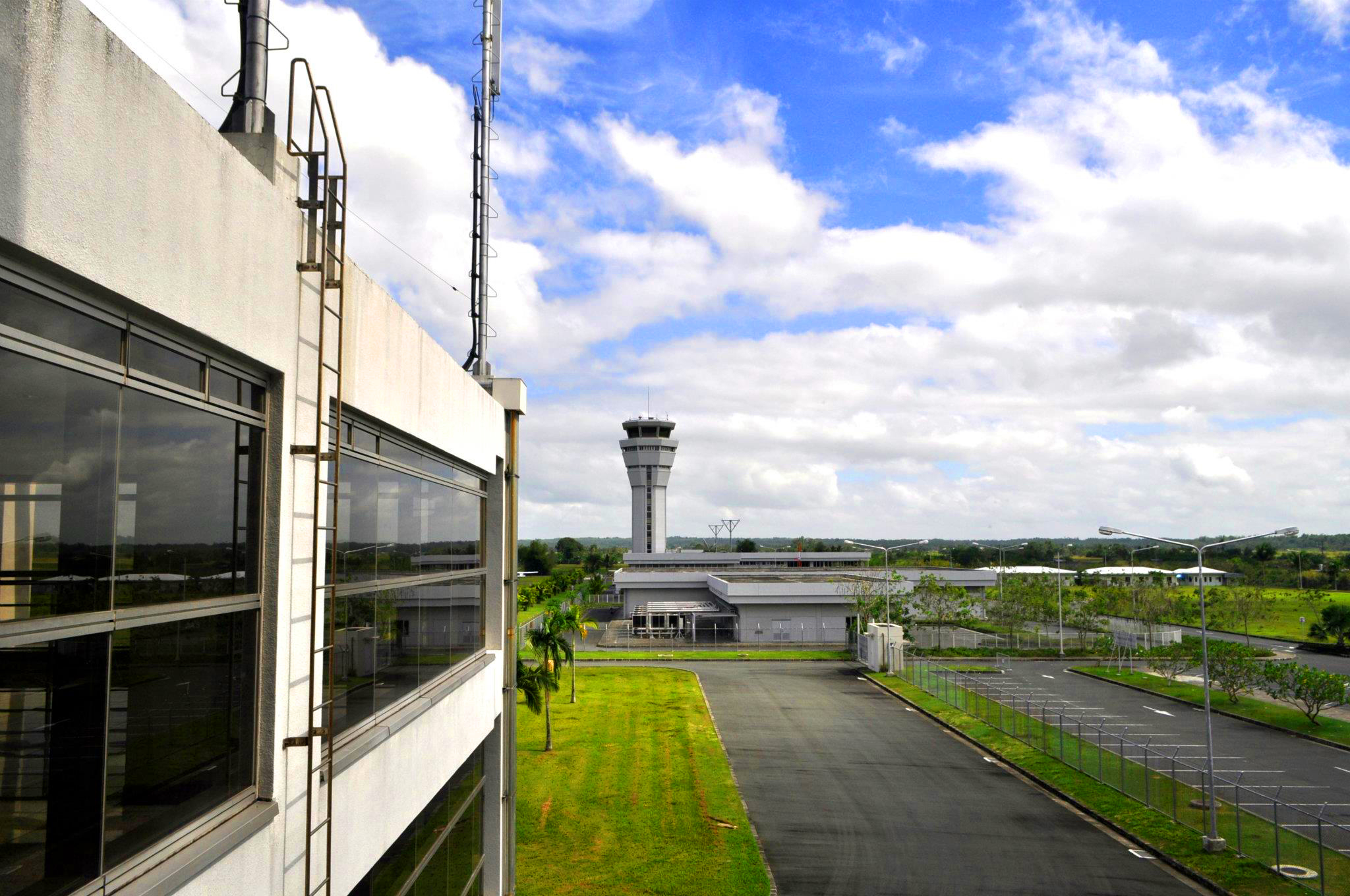 Control Tower at Iloilo International Airport